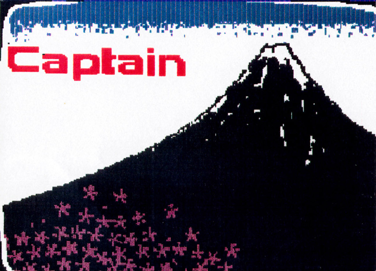 Welcome page of NTT captain videotex service